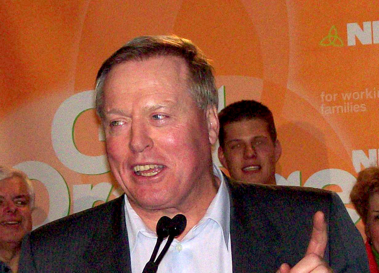 Howard Hampton speaking at Paul Ferreira's victory party in the York South–Weston by-election.